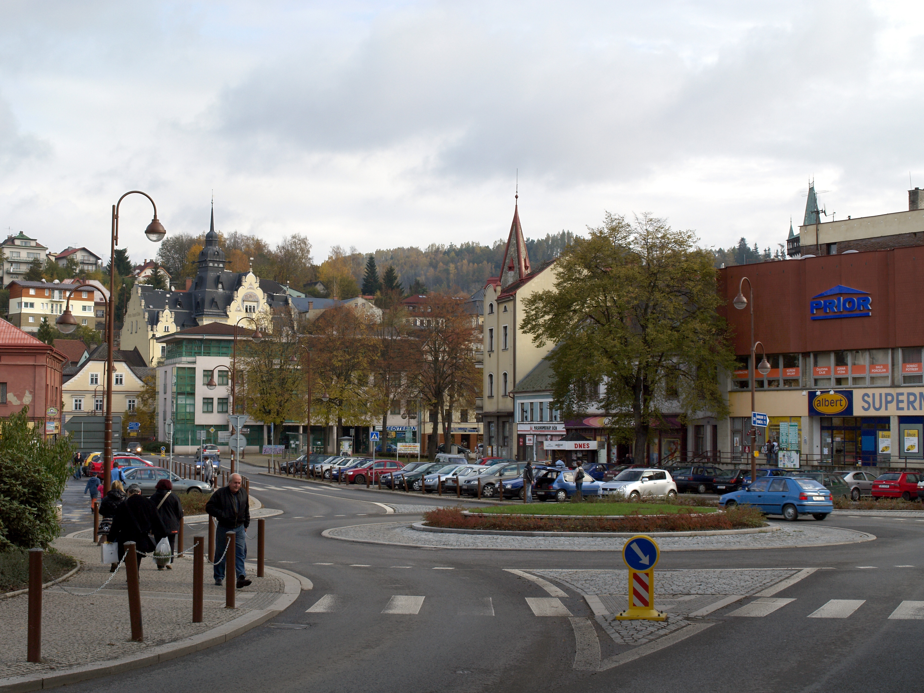 Roundabout in the centre of Czech town Semily